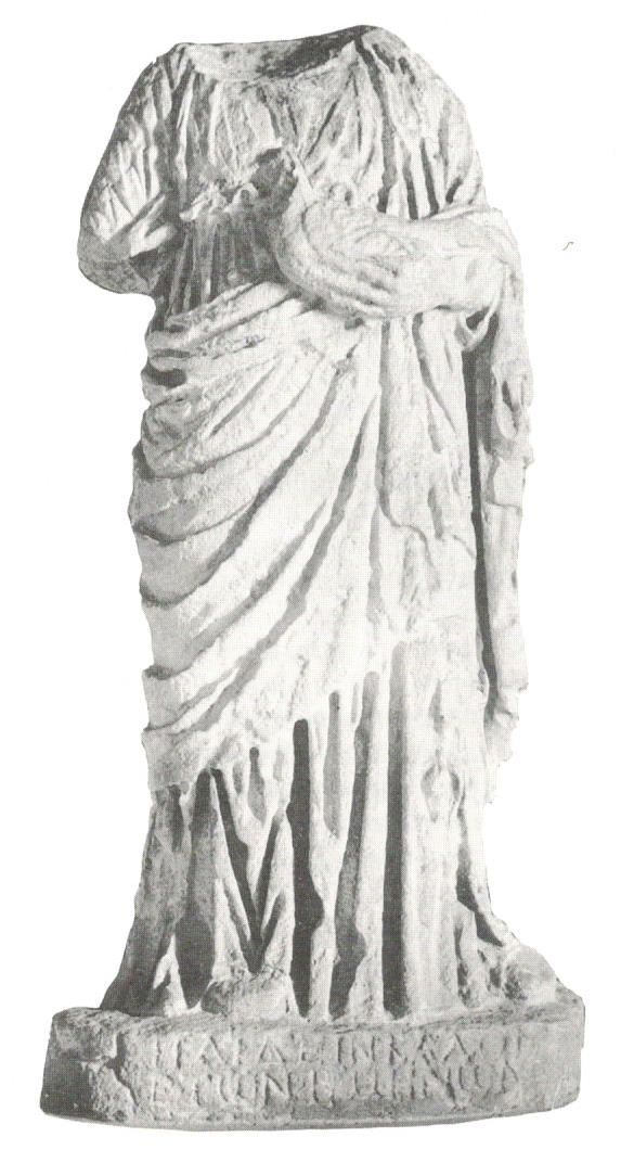 Artifact of a statue of a girl with a dove found in the village of Dolno Lakocherej, near Ohrid, Macedonia